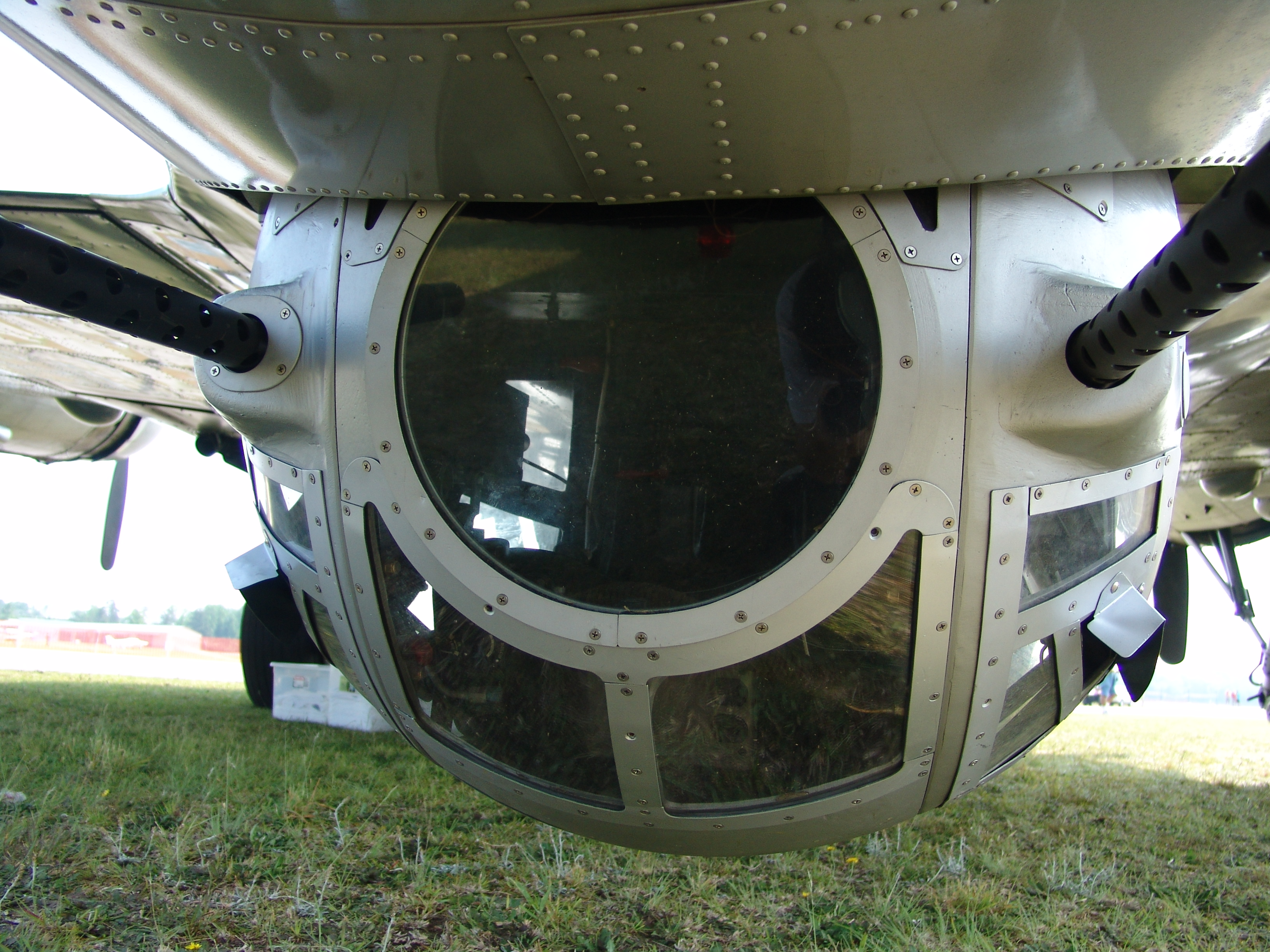 Close-up of the belly turret of the Liberty Belle on display at the 2005 Lumberton Celebration of Flight. I took the picture